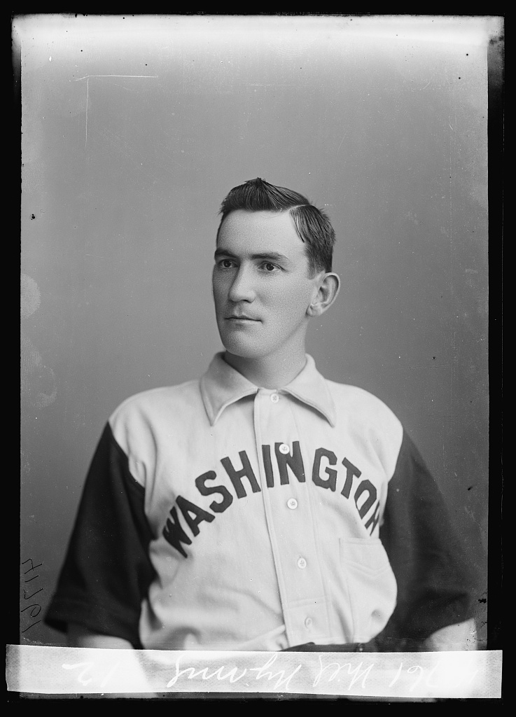 Will Wynne - Washington Nationals photographed by C. M. Bell